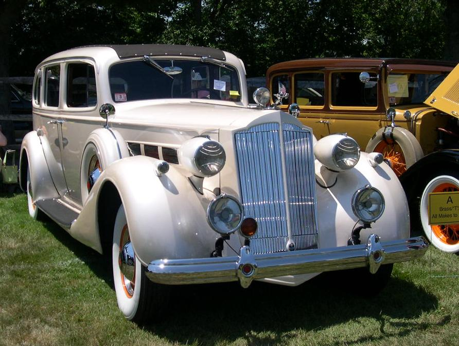 1937 Packard Super Eight Source: Photographed at the Bay State Antique Automobile Club's July 10, 2005 show at the Endicott Estate in Dedham, MA by User:Sfoskett